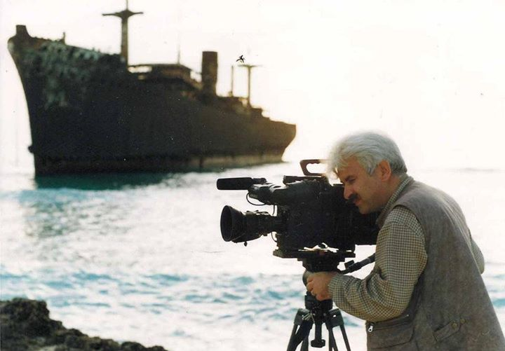 تصویربرداری مستند